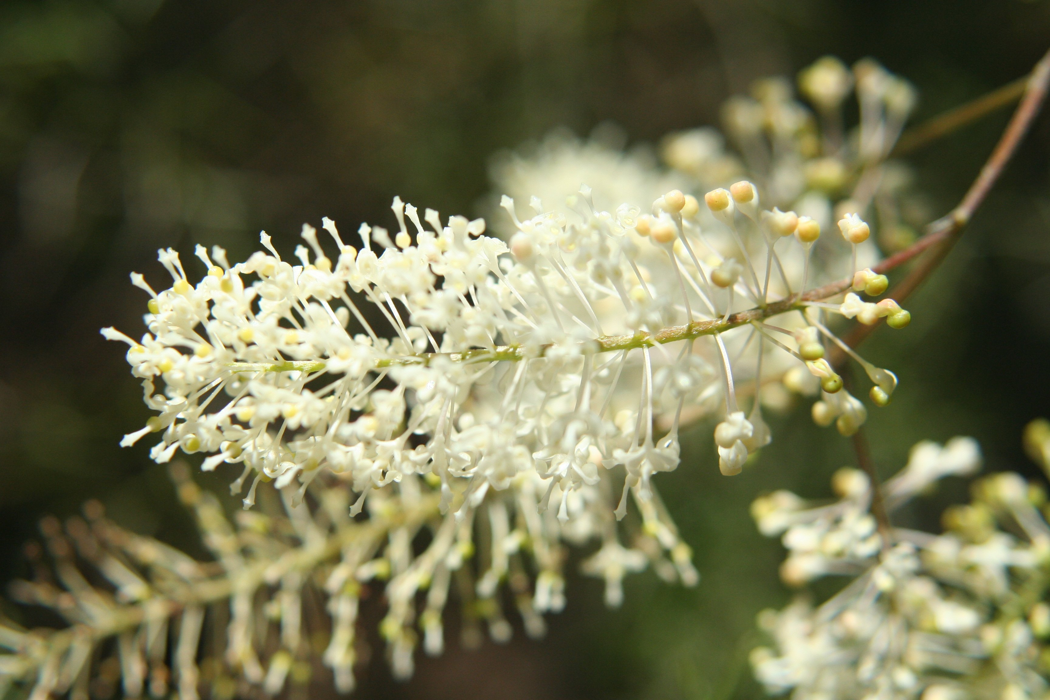 Flower of Grevillea leptopoda